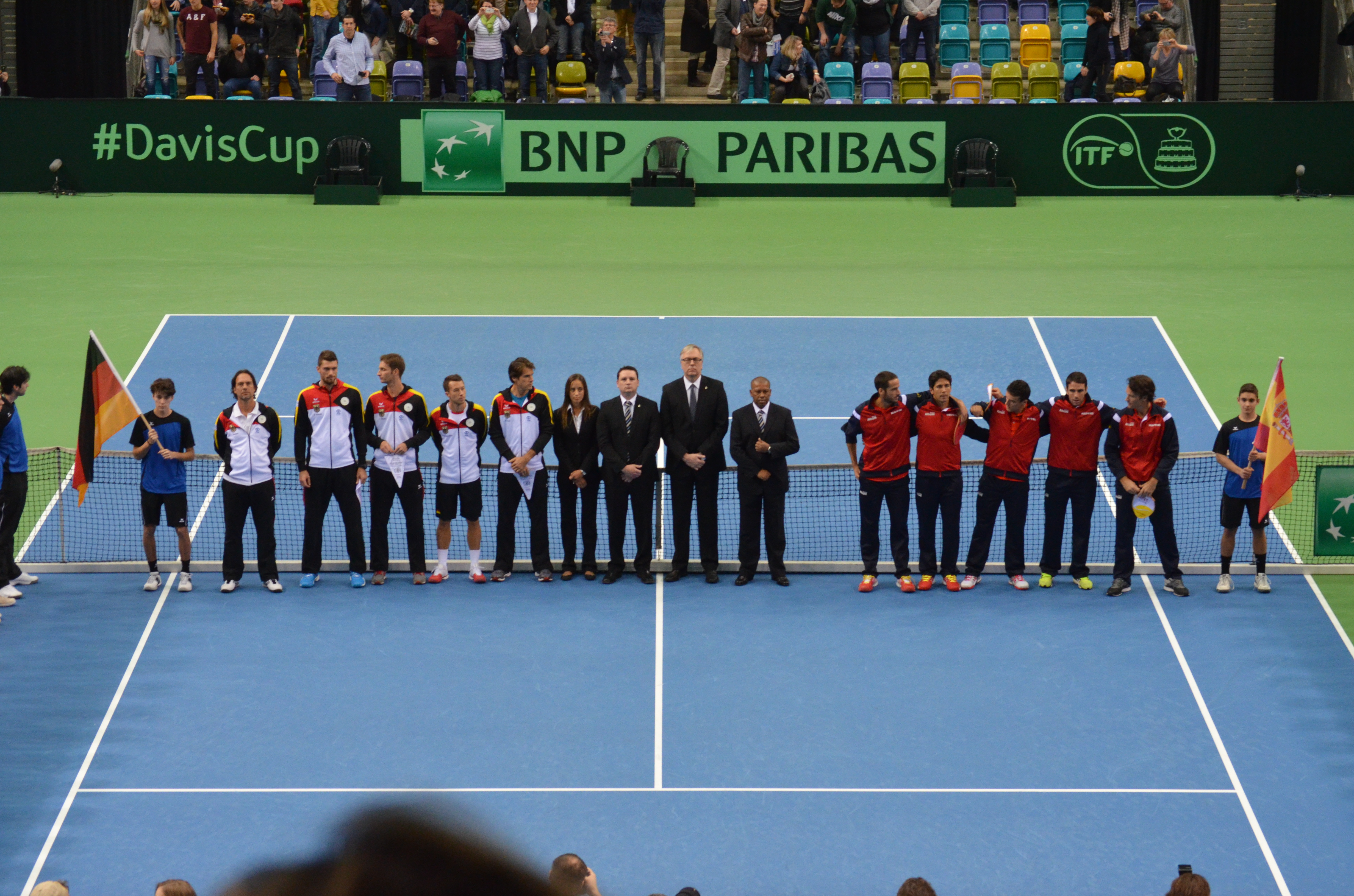 Teams and officials at the opening ceremony of Davis Cup World Group First Round Germany versus Spain 2014